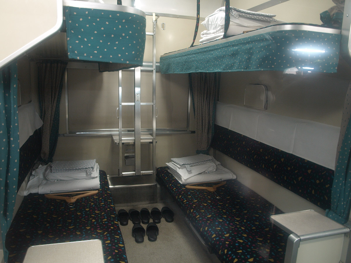 14-series sleeper train in Japan(2-berth 2nd class car)